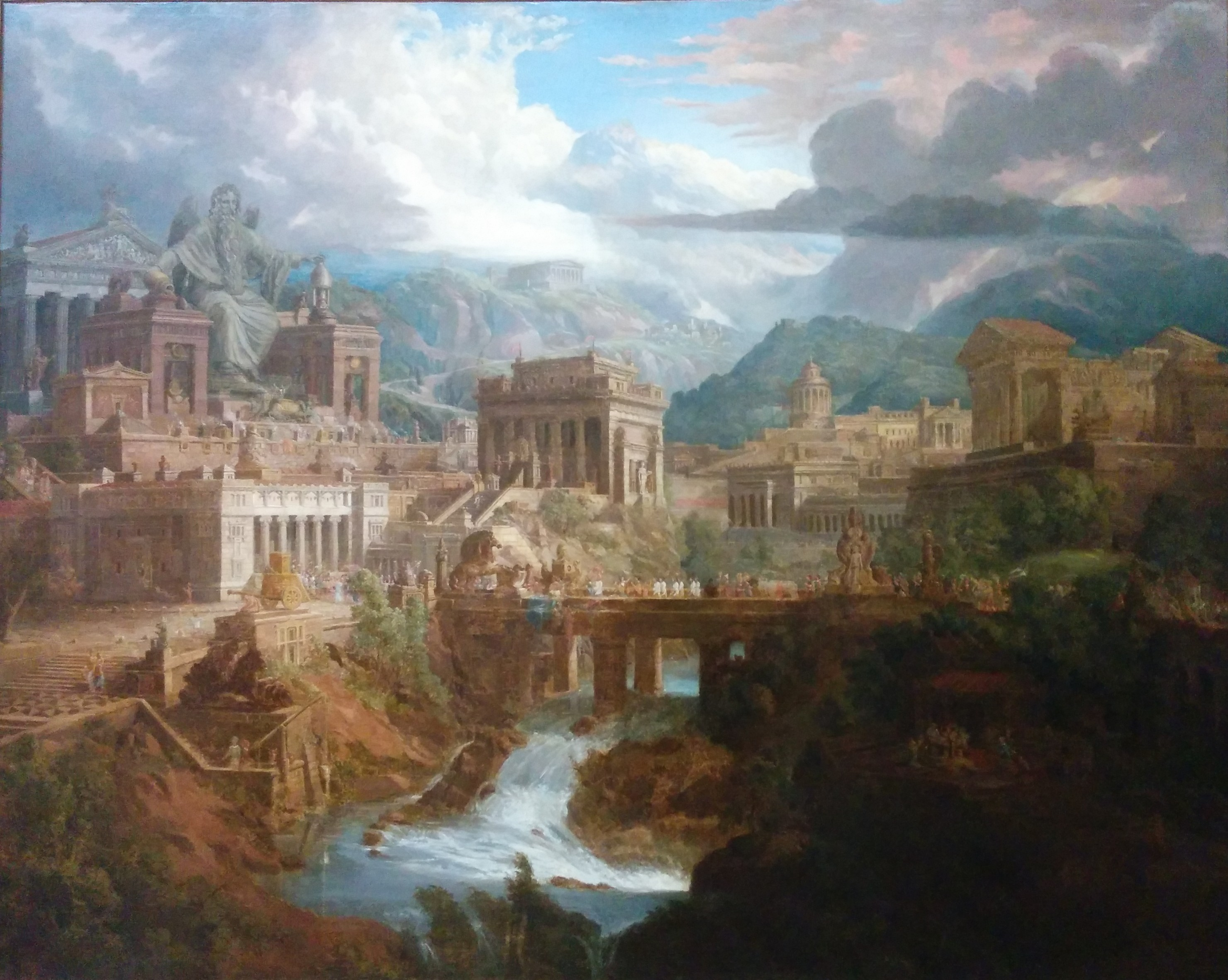 Colossal statue of Zeus in the ancient Greek city of Lebadeia (modern Livadeia). Created in 1819 by Joseph Gandy, hosted in Tate Britain gallery